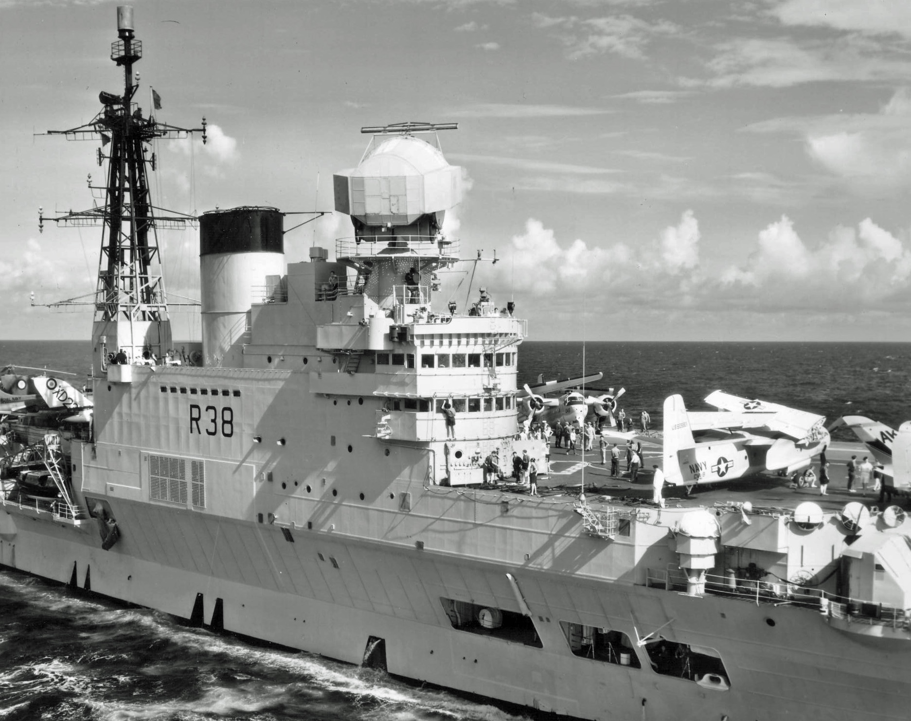 Midship view of the British Royal Navy aircraft carrier HMS Victorious (R38) operating off Norfolk, Virginia (USA), between 15 and 20 July 1959. Aft of the island are several planes of Victorious´ air group: a Supermarine Scimtar fighter of 803 Naval Air Ssquadron, and a Westland Dragnonfly HR.5 of Ships Flight 1 (Search and Rescue). Parked in front of the island are three U.S. Navy aircraft: a Douglas F4D-1 Skyray fighter of VF-13 Night Cappers, and two Grumman TF-1 Trader transport planes, all assigned to Carrier Air Group 10 (CVG-10, tail code "AK") aboard the USS Essex (CVA-9).